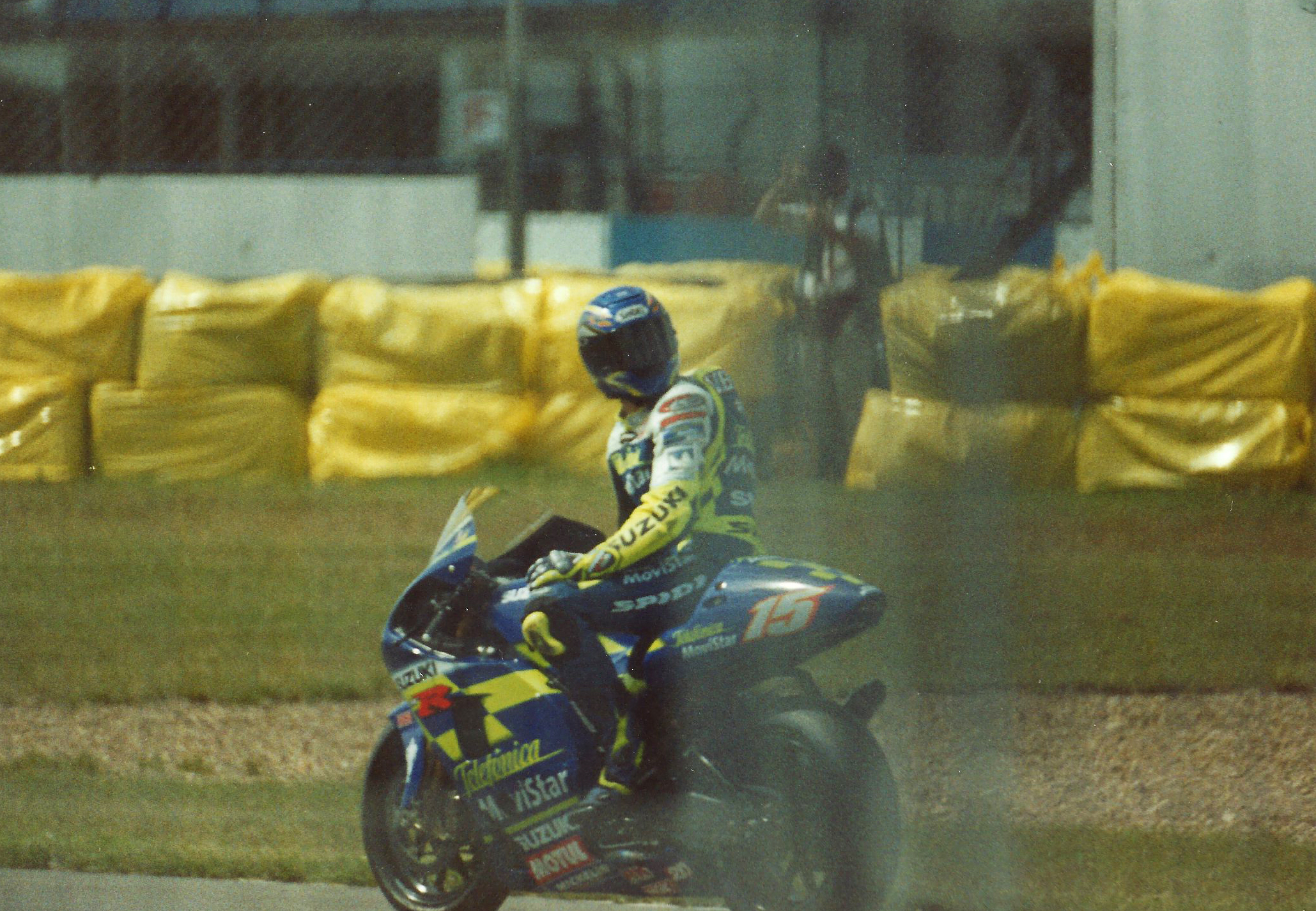 Sete Gibernau, sitting on his Telefónica Movistar Suzuki, looking back after finishing in sixth place at the 2002 British Grand Prix.